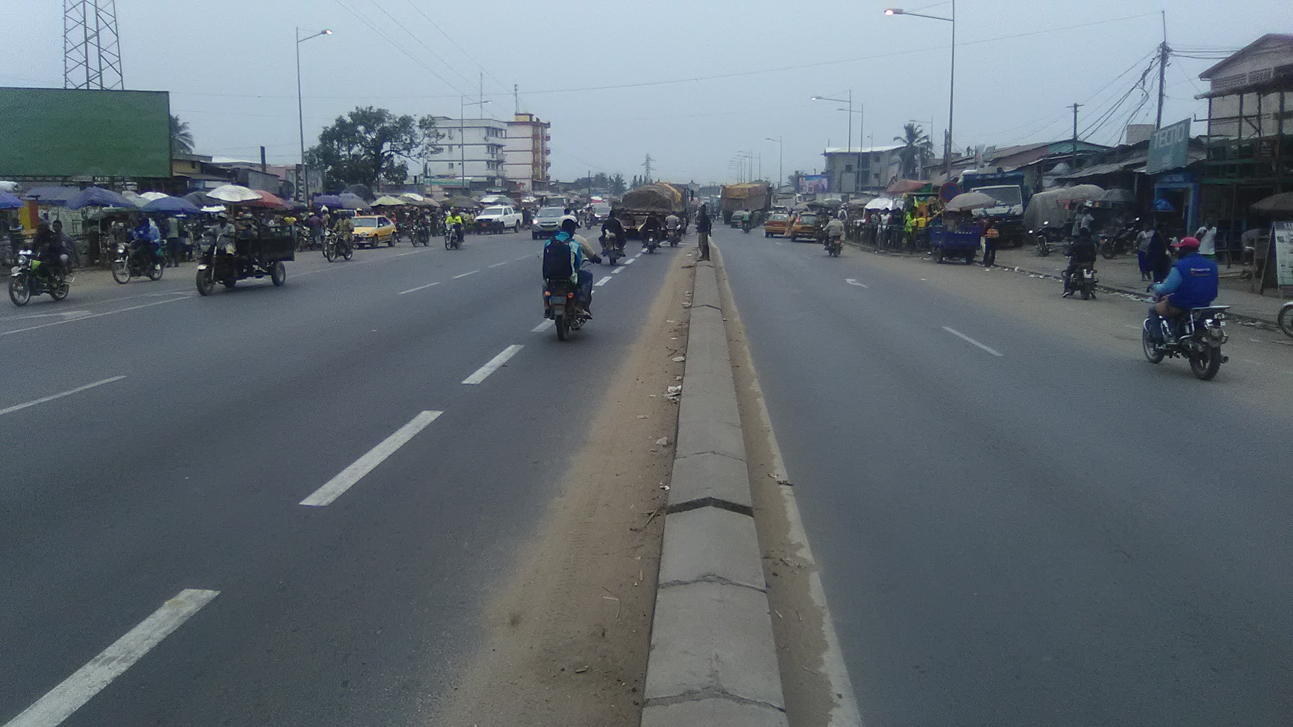 This is an image with the theme "Africa on the Move or Transport" from: Cameroon